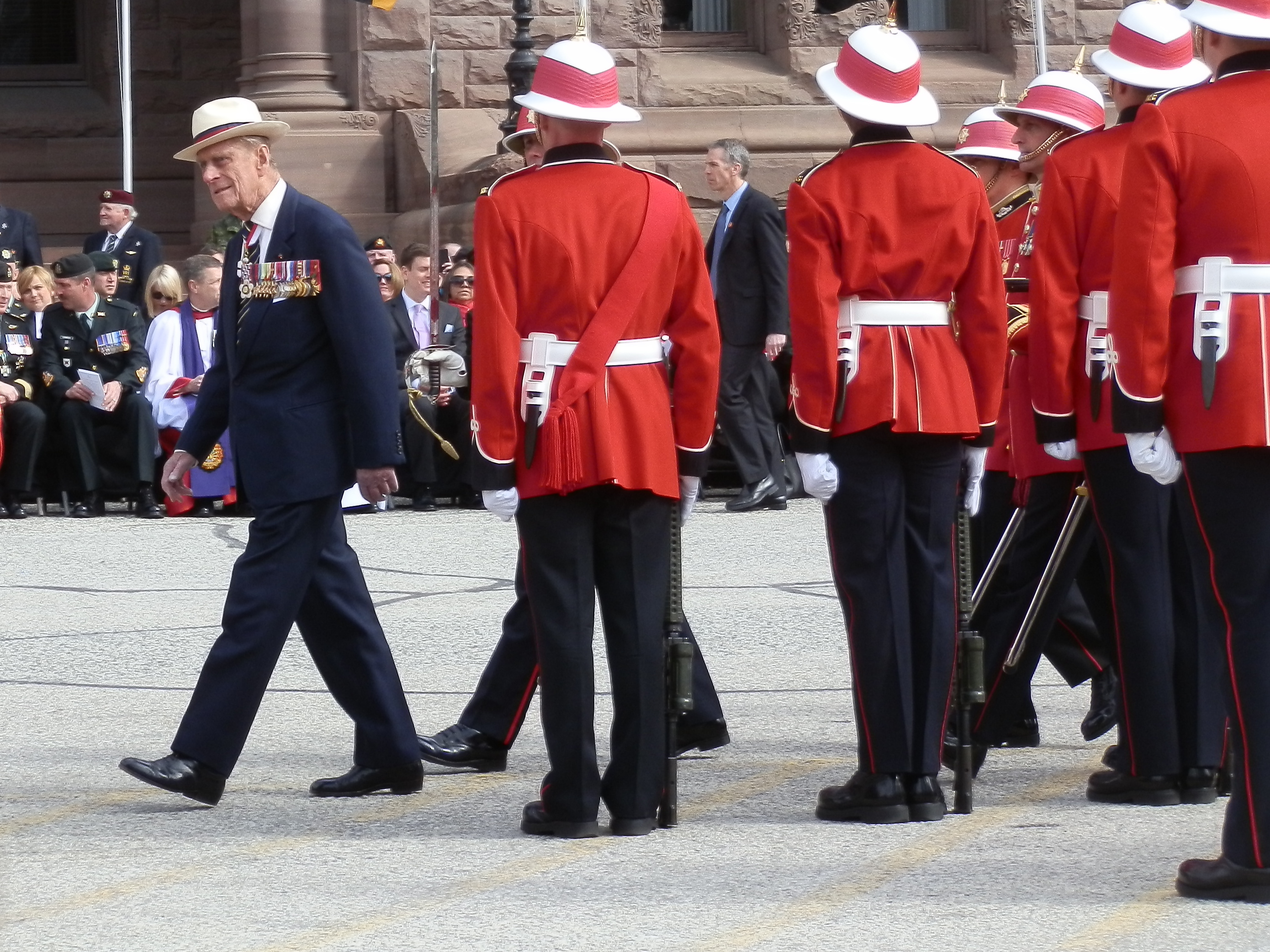 The Duke of Edinburgh inspecting the parade before presenting a new regimental colour to the 3rd Battalion The Royal Canadian Regiment